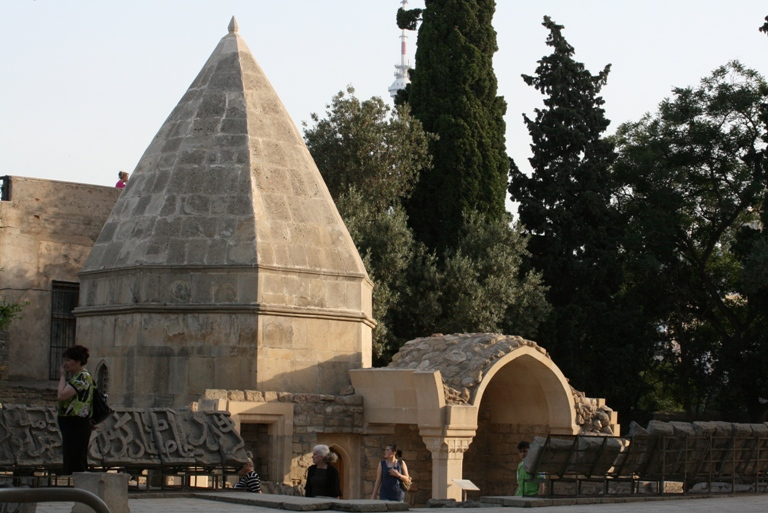 Seyid Yahya Bakuvi's Mausoleum - Shirvanshah's Palace - 14century